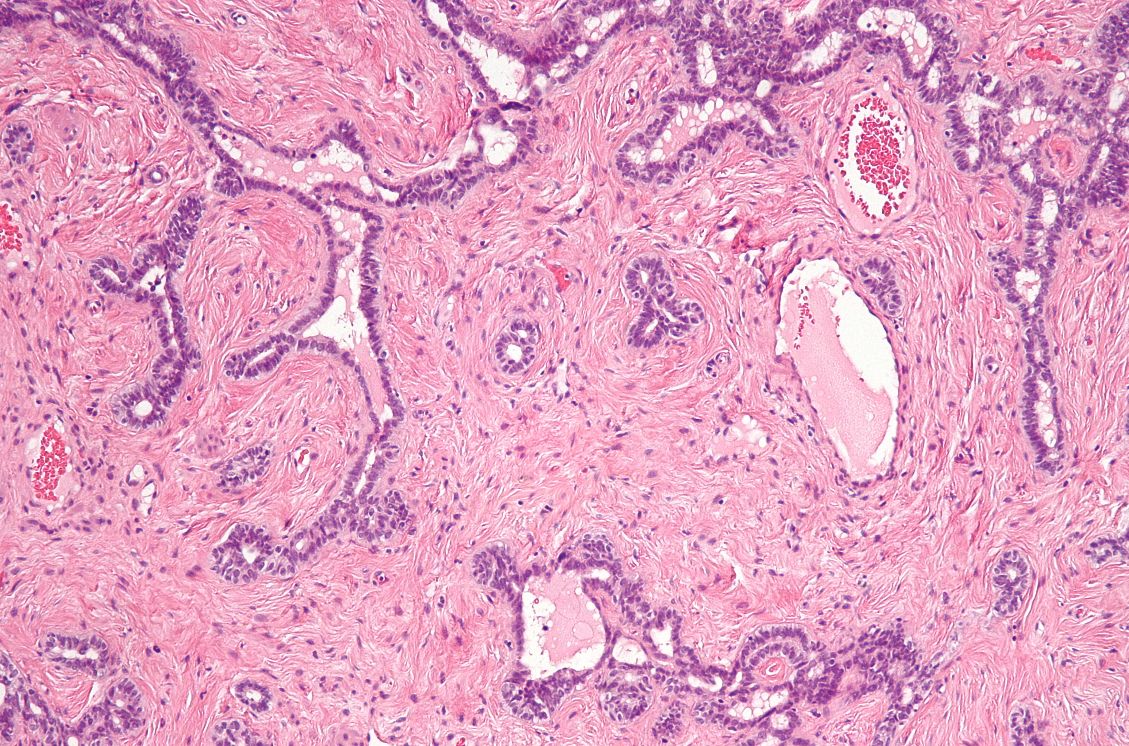 Micrograph of the rete testis. H&E stain. Features: Fine anastomosing channels lined by a bland cuboidal epithelium and surrounded by connective tissue. Related images Rete testis with seminoma.